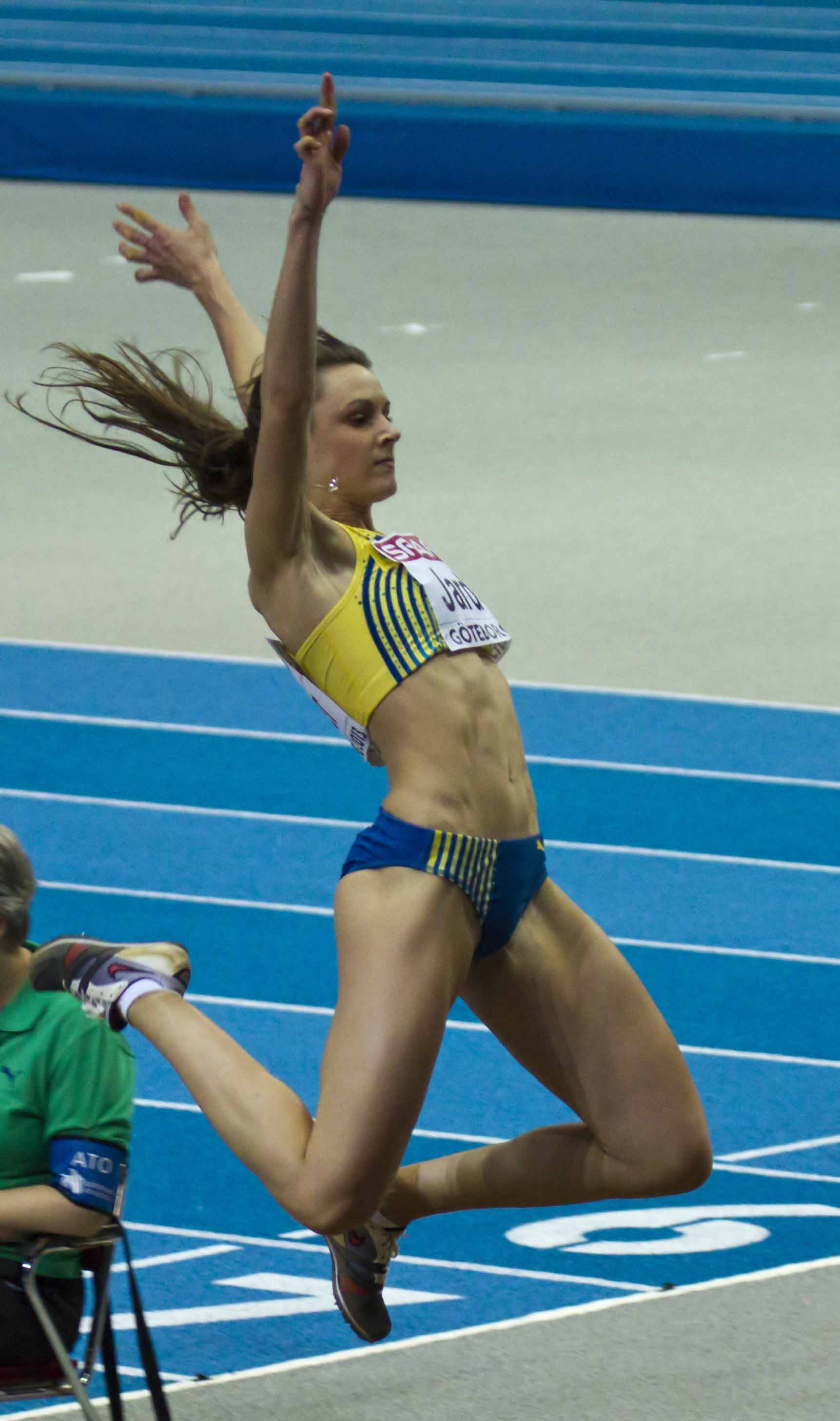 Erica Jarder European indoor Championships Göteborg 2013